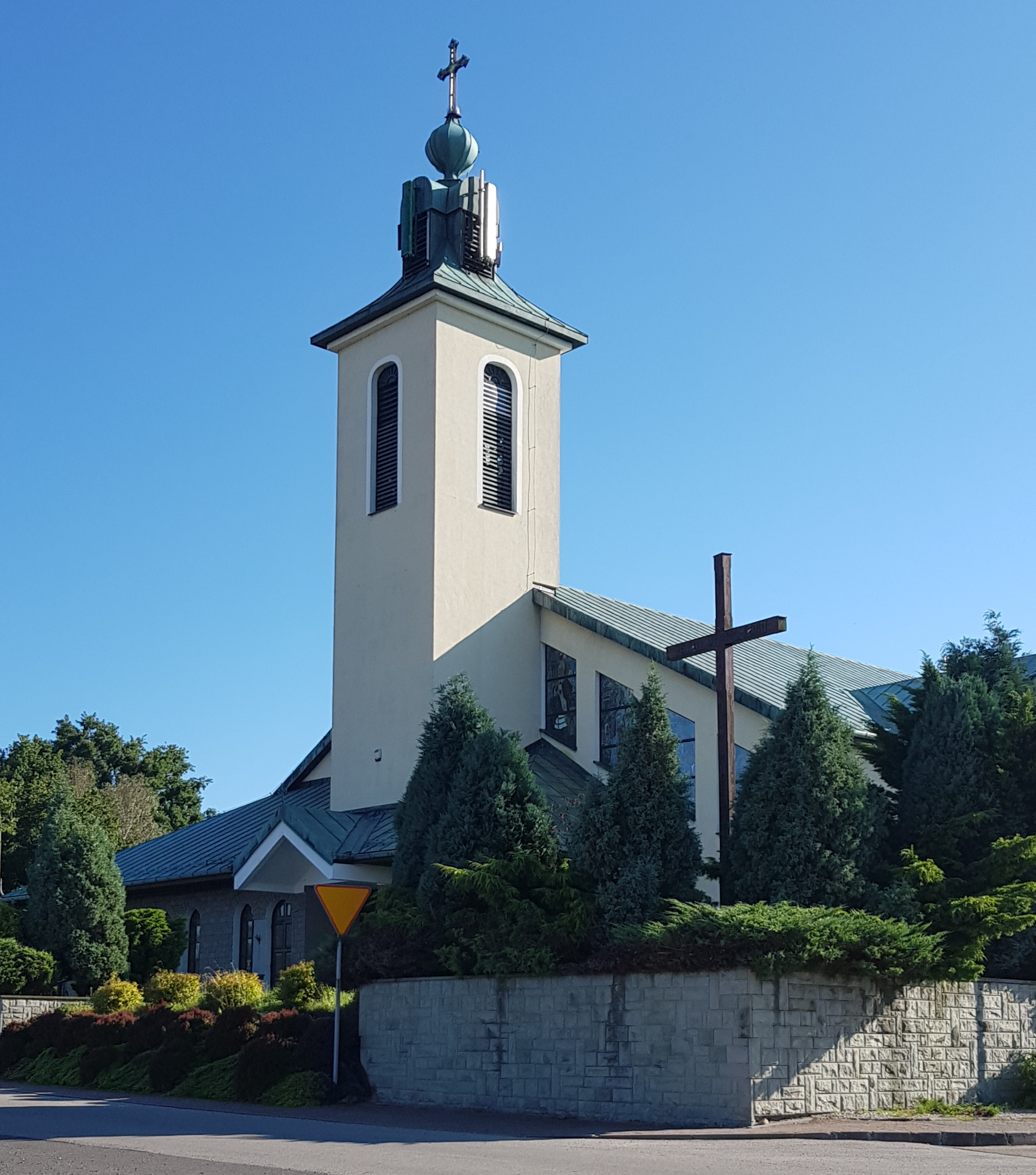 Saint John church in Malec